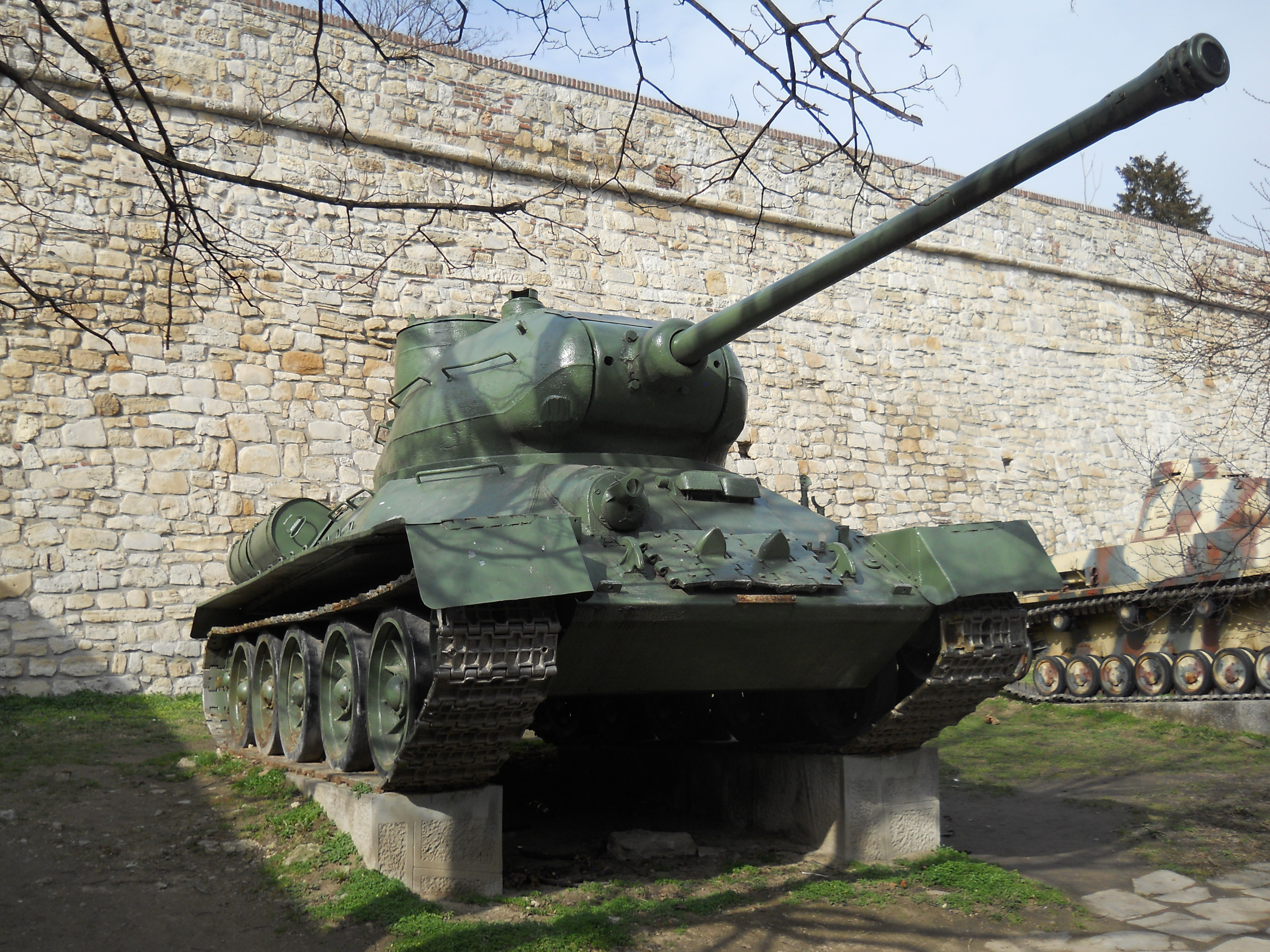 Heavy Yugoslavian tank based on T-34